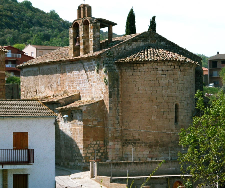 Les Avellanes, Noguera, Catalonia. Romanesque church.